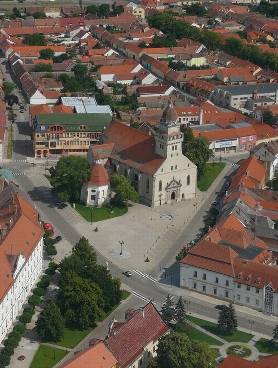 skalica’s symbol